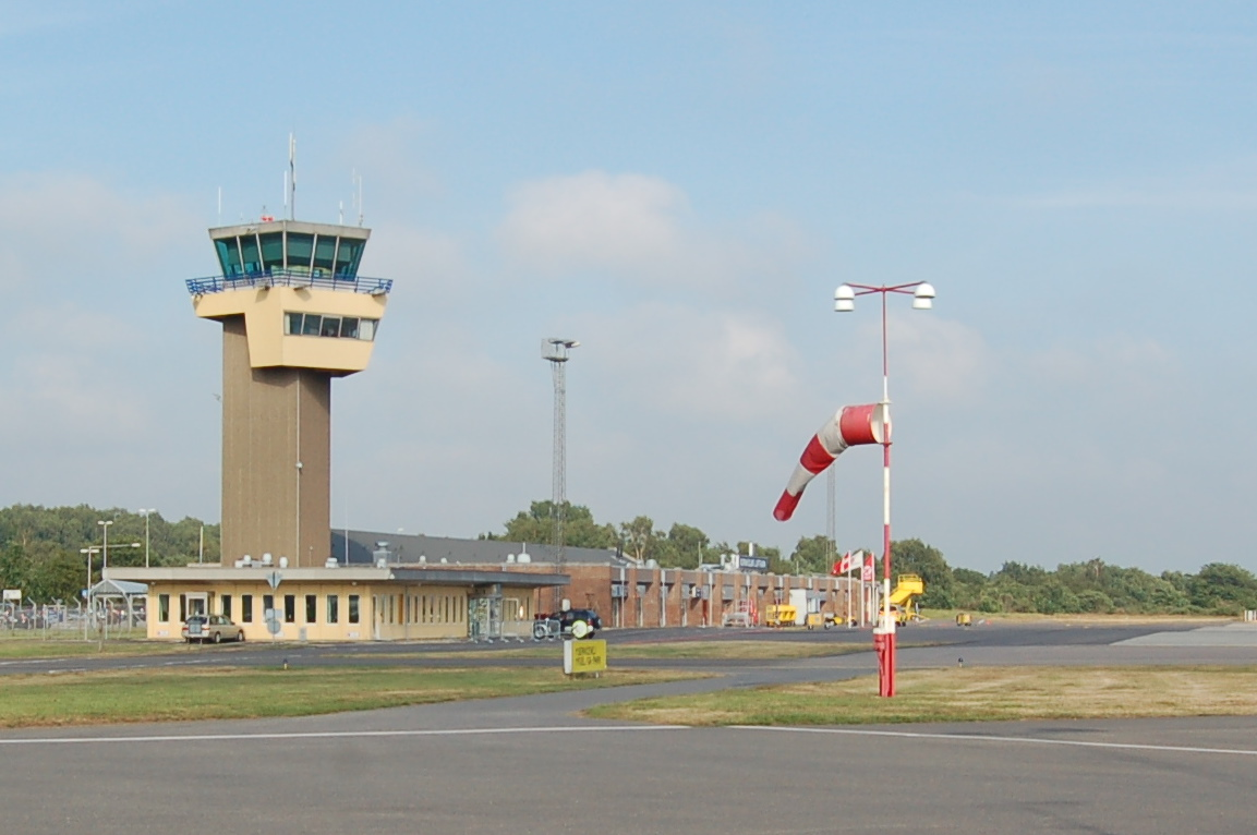 Photo of Bornholm airport, Denmark